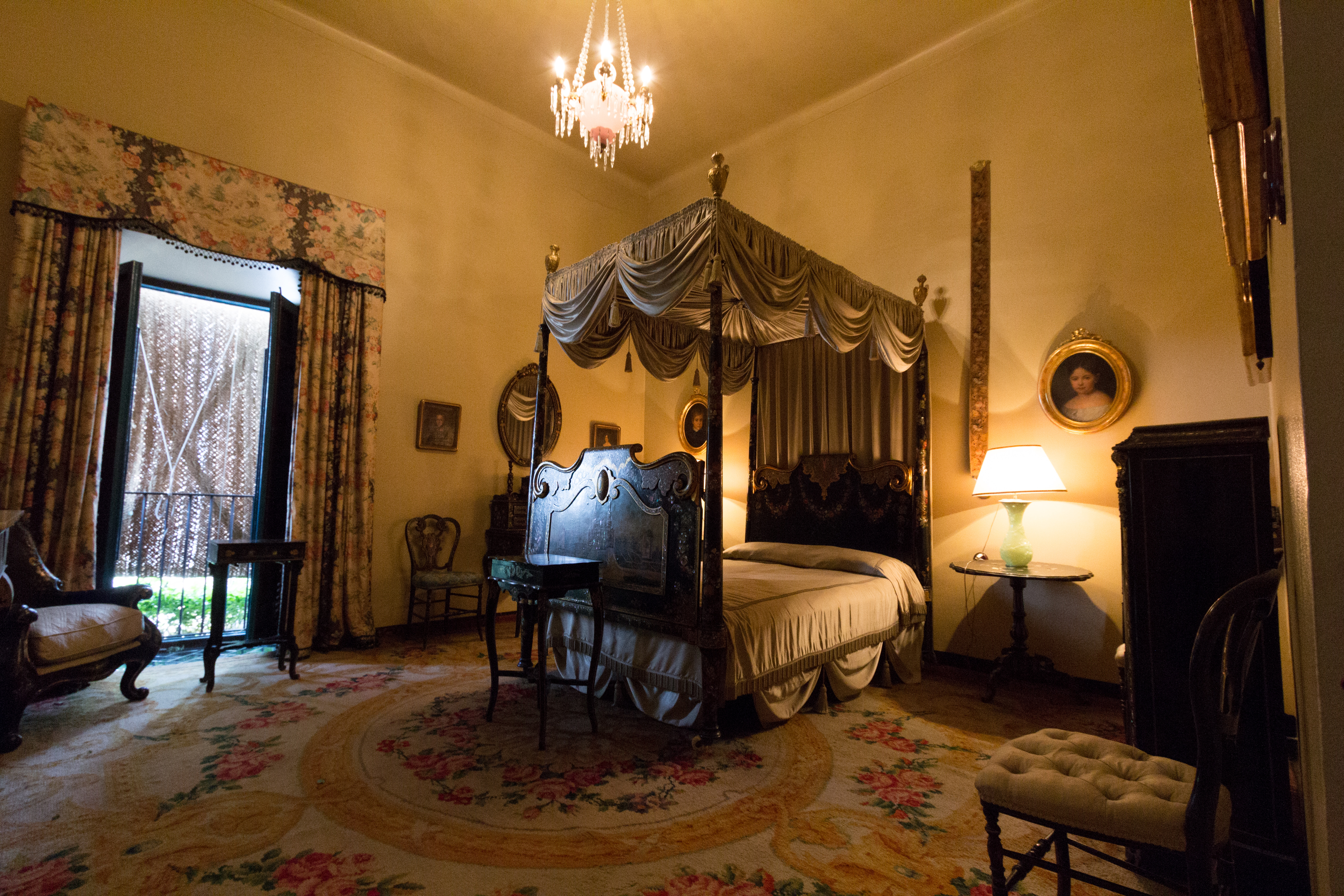 Córdoba, Spain.